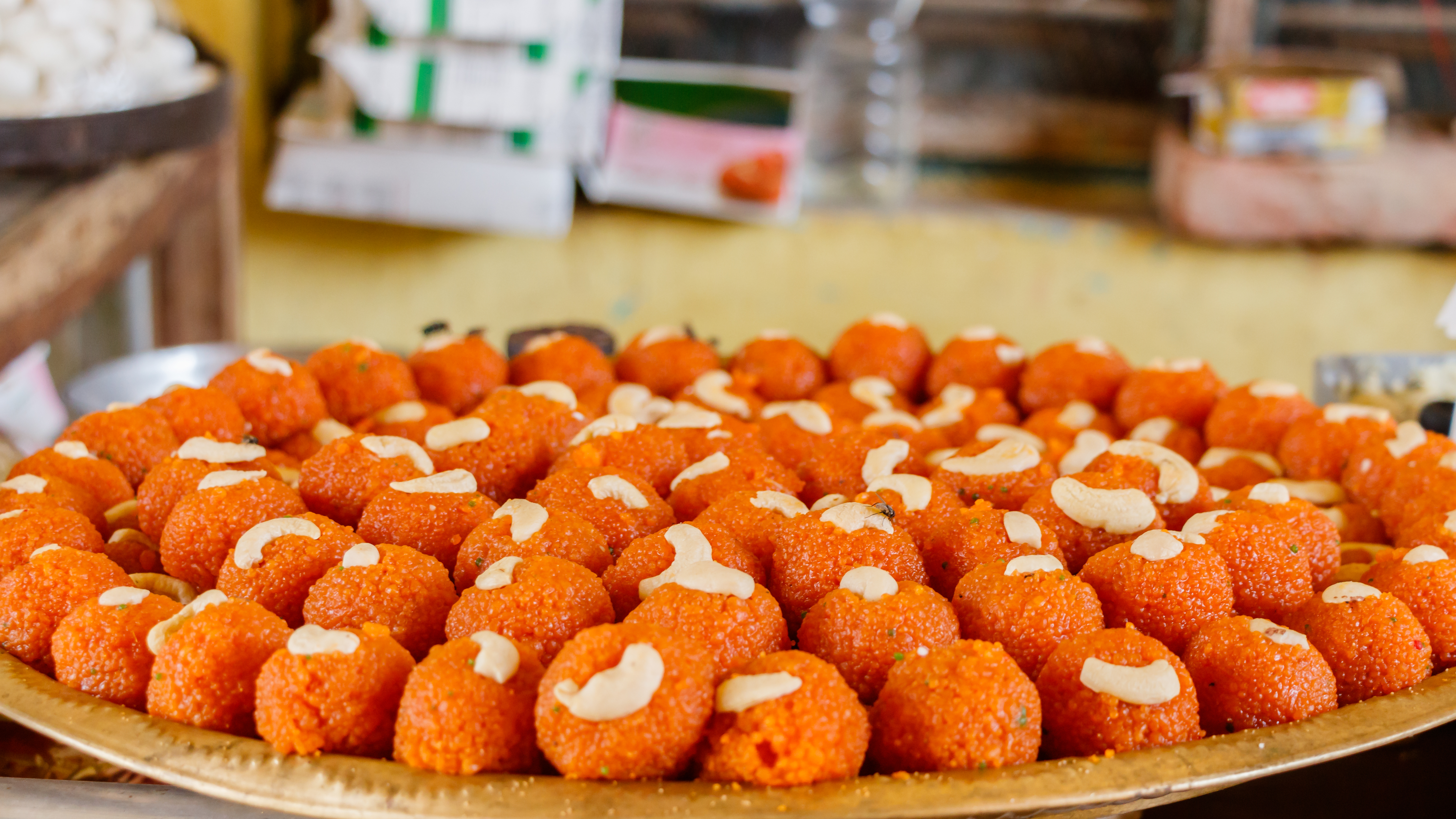 Laddu or laddoo (laḍḍū, lāḍḍū) are sphere-shaped sweets from the Indian subcontinent, originated in the Indian subcontinent.